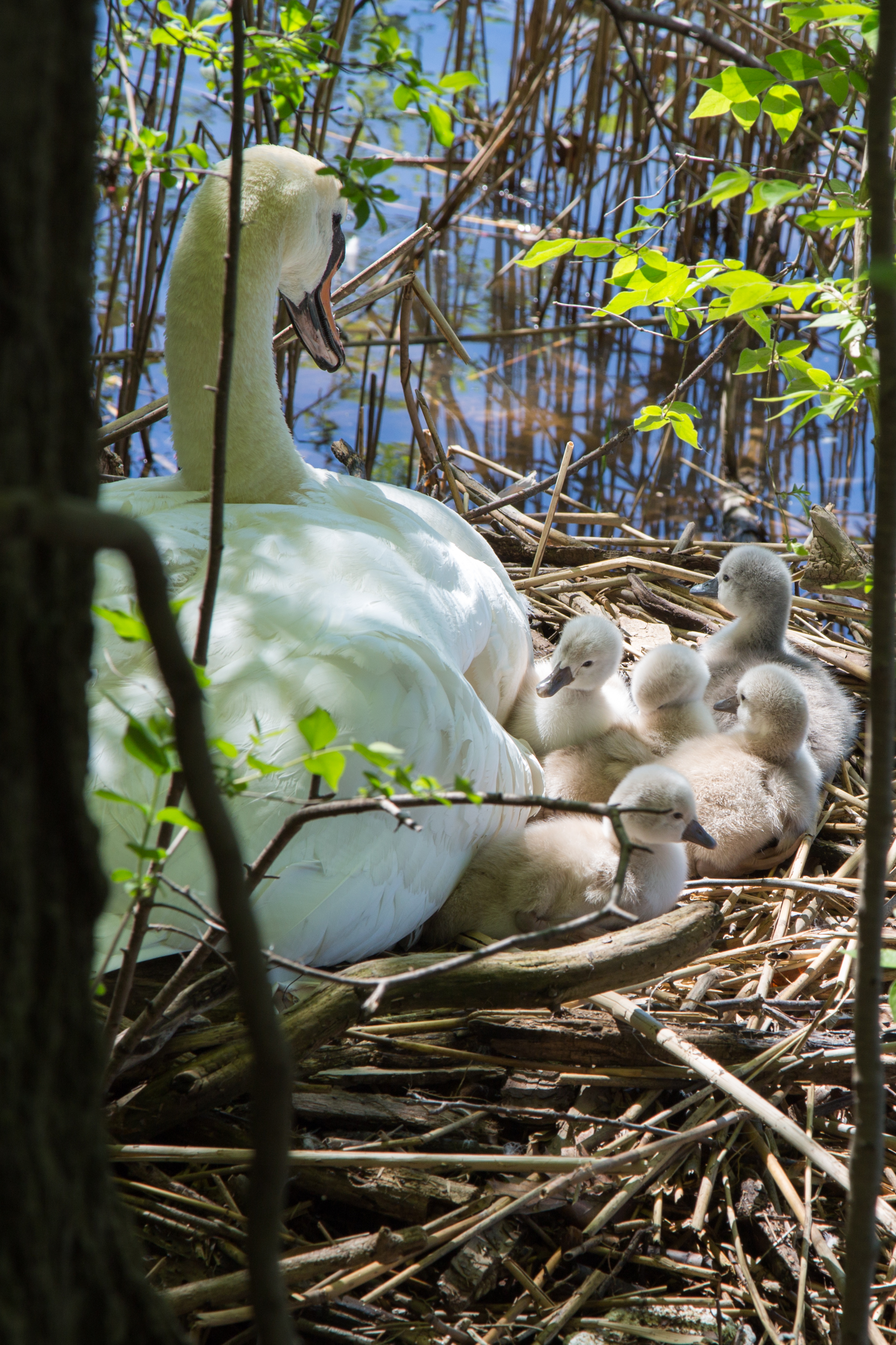 Mute Swan nest with newly hatched babies